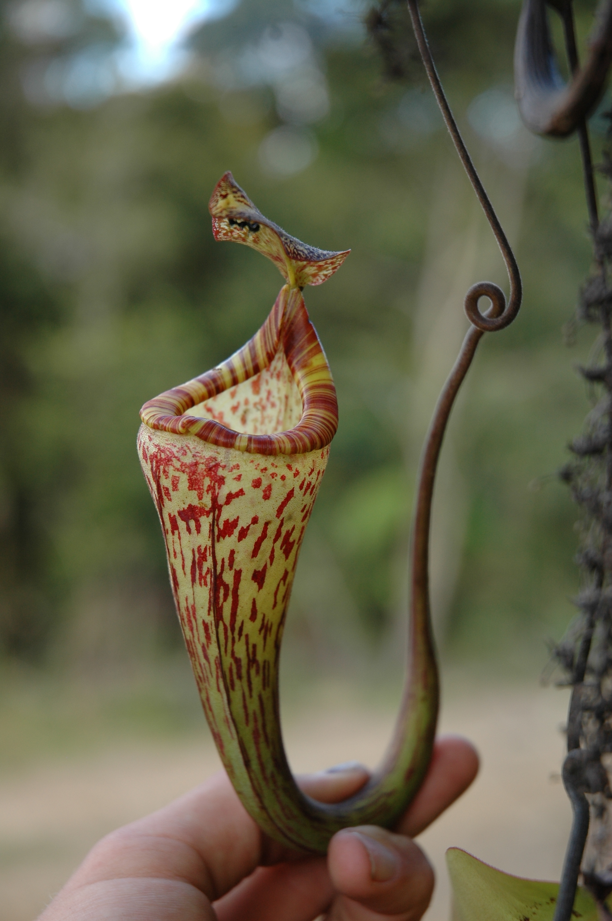 Nepenthes vogelii Kelabit Highlands Sarawak by Jeremiah Harris